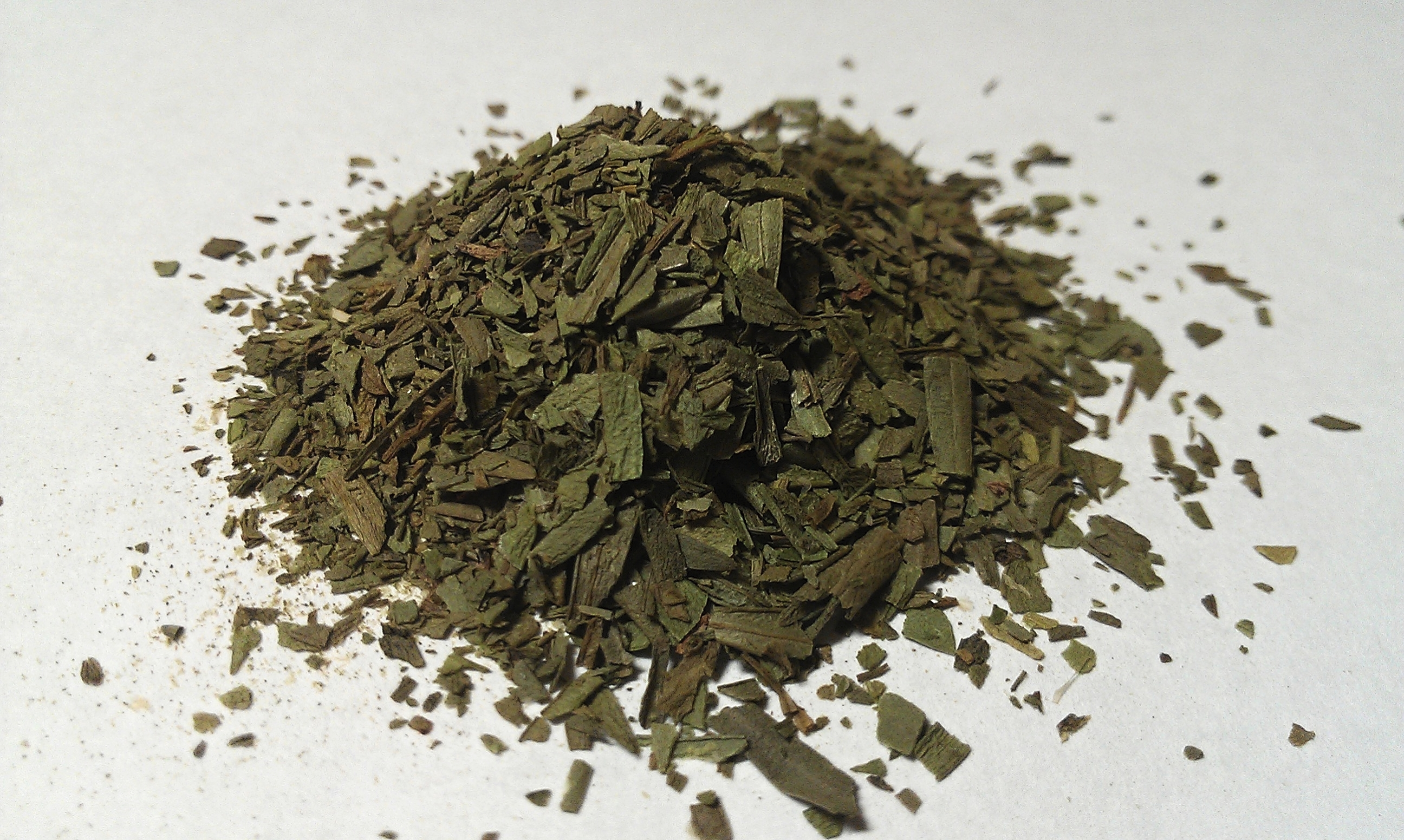 Tarragon spice (Artemisia dracunculus)